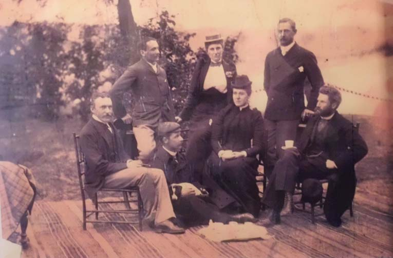 Photograph taken in 1892 by an unknown photographer at the military cantonment of Mian Mir outside Lahore, India. Seated on the right, holding a cup of tea, is the Hungarian writer Zsigmond Justh (1863–1894); standing next to Justh is Lionel Dunsterville (1865–1946); standing on the other side is Aurel Stein (1862–1943).